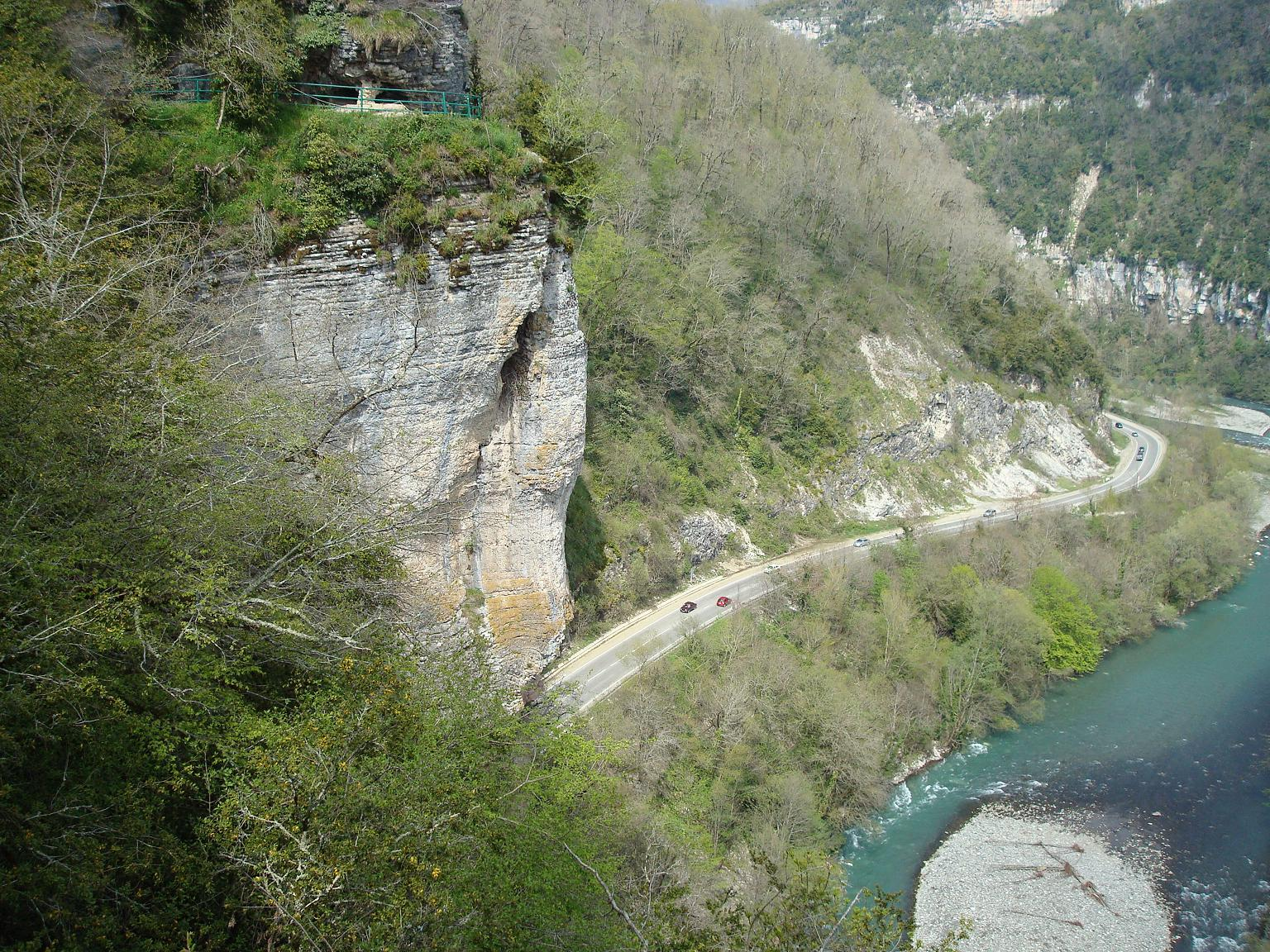 Canyon Ashkhtyrsky, Mzymta river, road Adler - Krasnaya Polyana